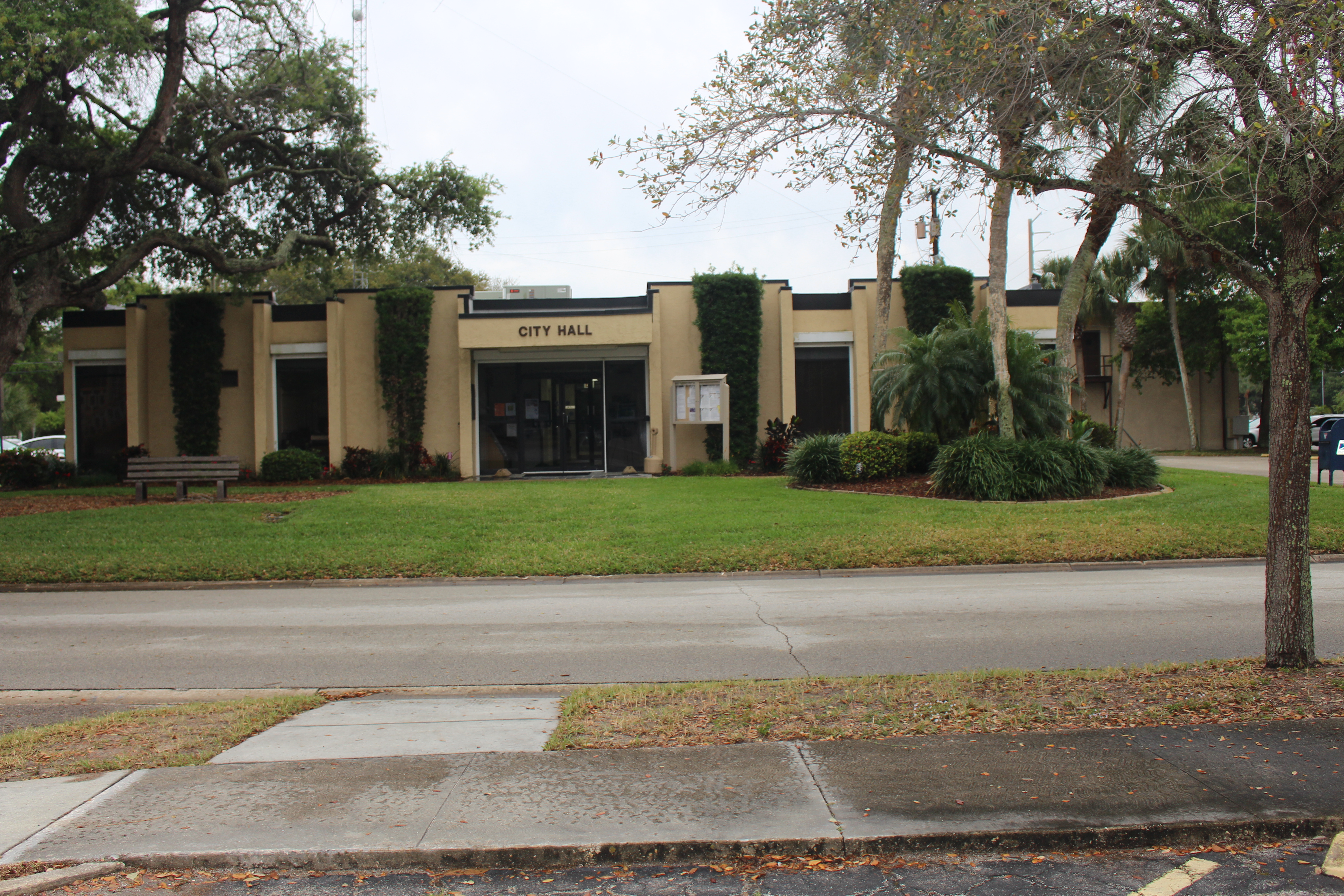 Cape Canaveral City Hall, Cape Canaveral, Brevard County, Florida